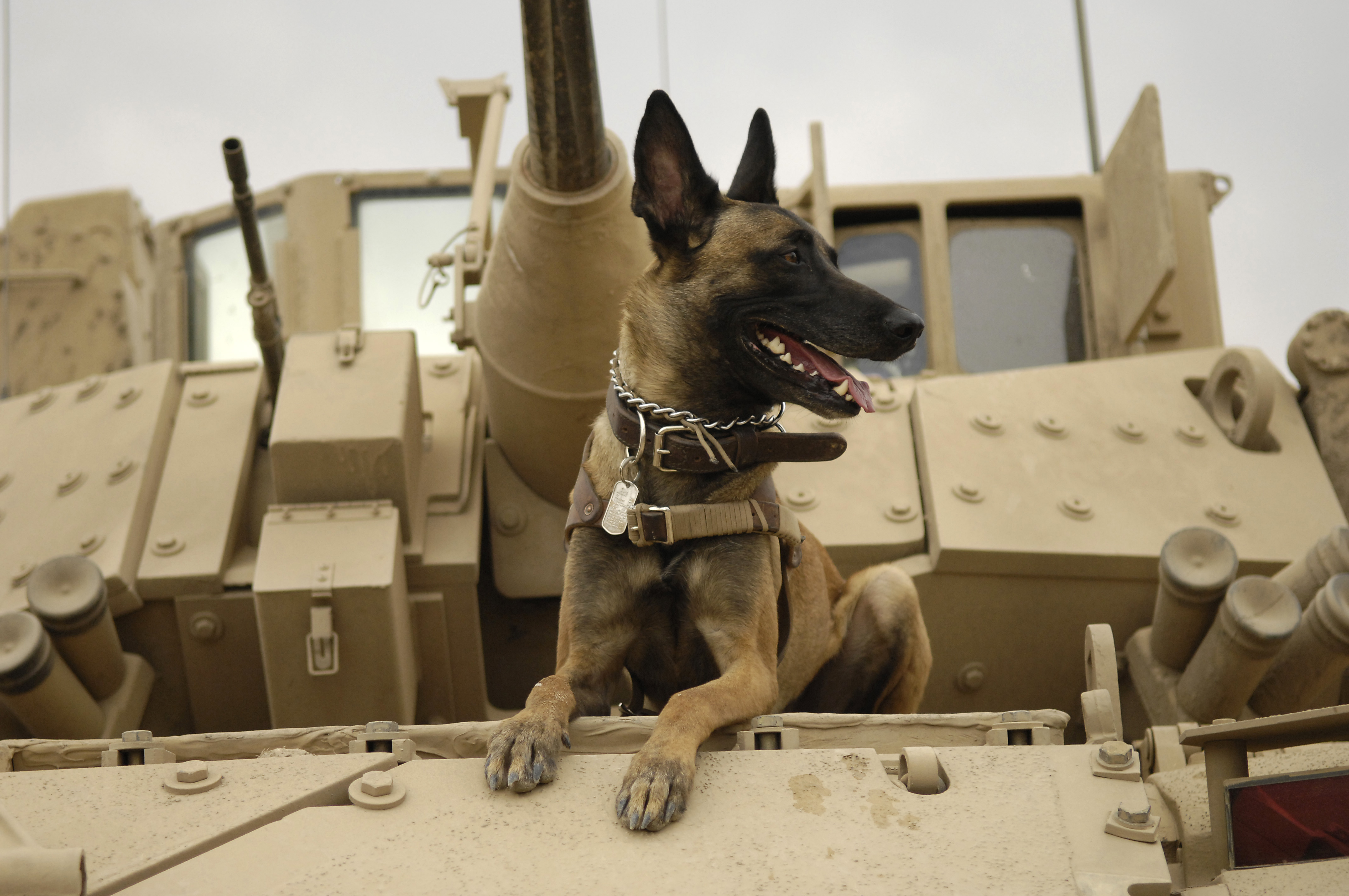 WORKING DOG — U.S. Air Force military working dog Jackson sits on a U.S. Army M2A3 Bradley Fighting Vehicle before heading out on a mission in Kahn Bani Sahd, Iraq, Feb. 13, 2007. His handler is Tech. Sgt. Harvey Holt, of the 732nd Expeditionary Security Forces Squadron.